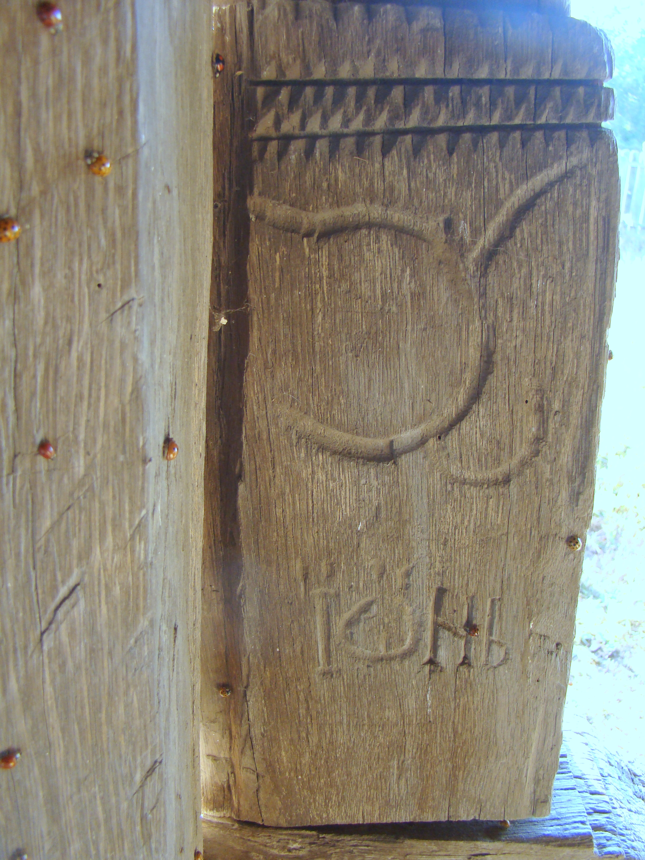 Wooden church in Căpățânești, Mehedinți county, Romania